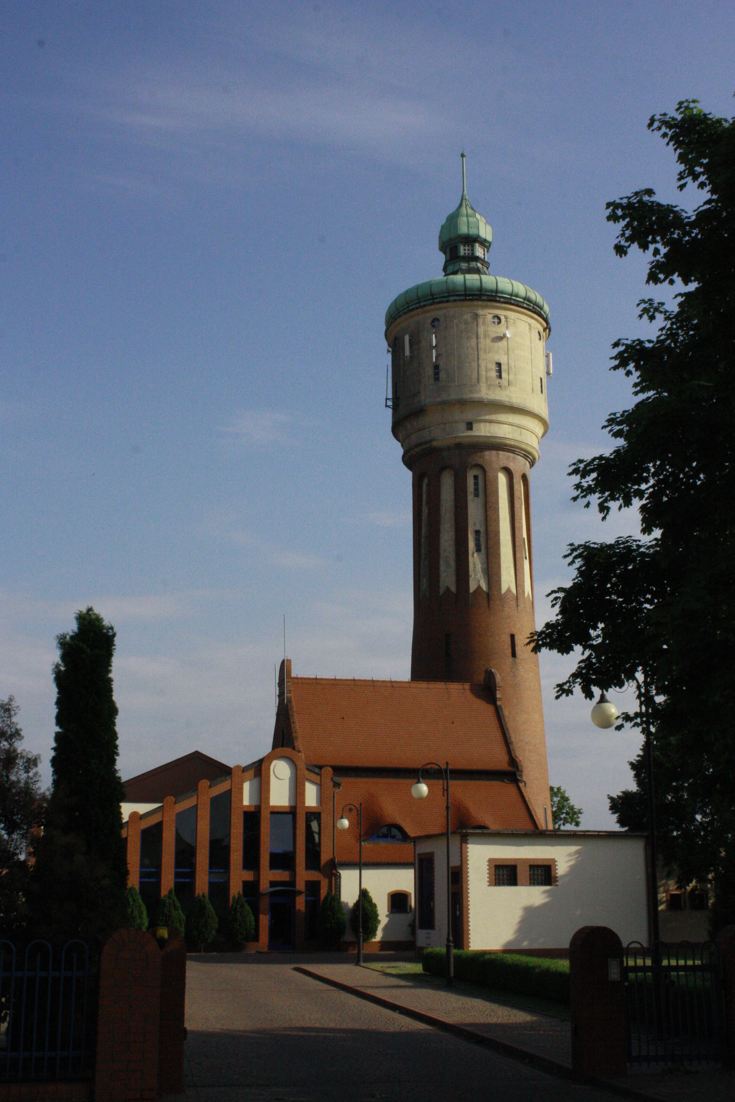 Water tower from Szosa Witkowska street